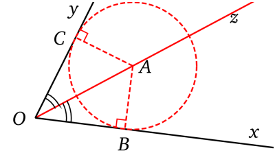 A figure for the bissector of an angle. Author : Alcandre